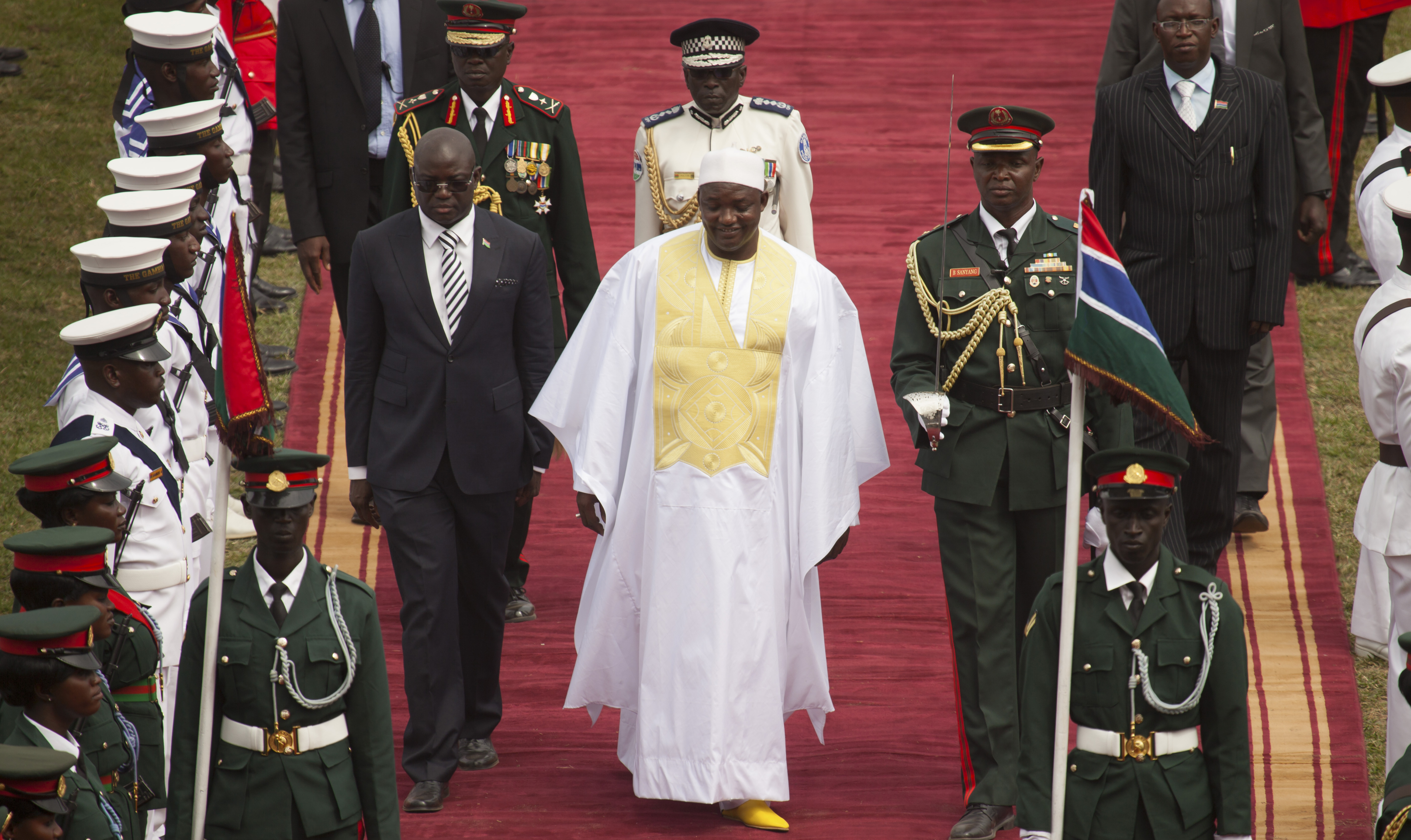 52nd Independence Anniversary Celebrations and Inauguration of His Excellency Mr. Adama Barrow President of the Republic of The Gambia Saturday 18th February 2017